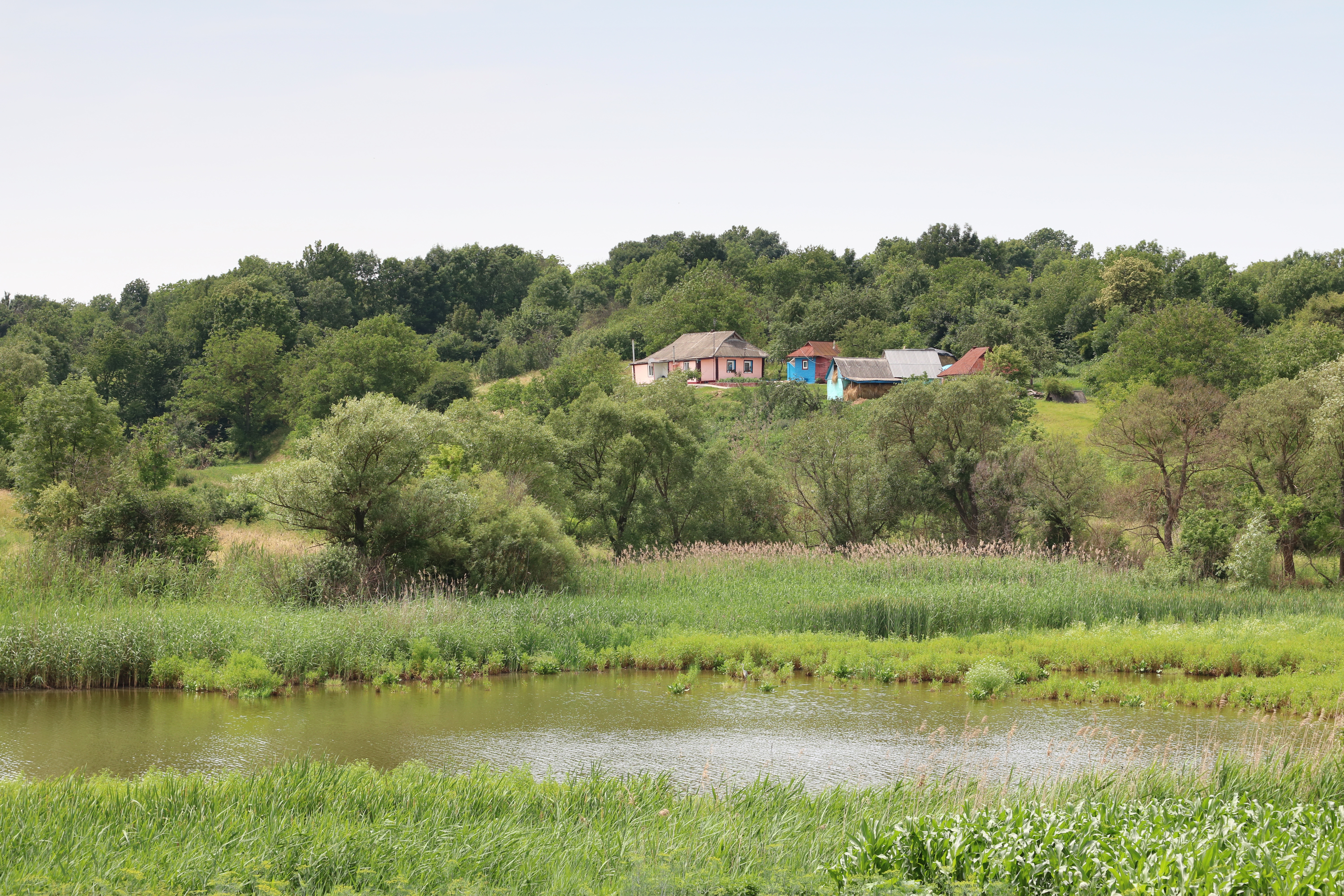 Village of Levkivtsi in the Tulchin district of Vinnytsia oblast. River Sil'nytsya.